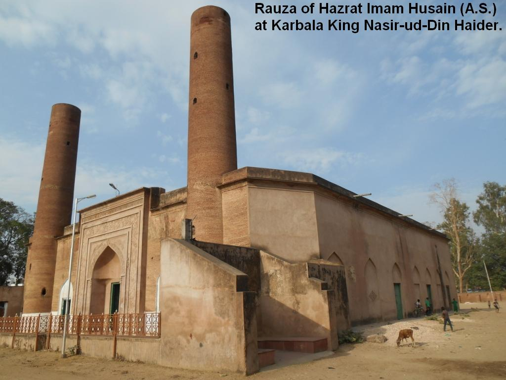 Rauza of Hazrat Imam Husain (A.S.) at Karbala King Nasir-ud-Din Haider, Lucknow